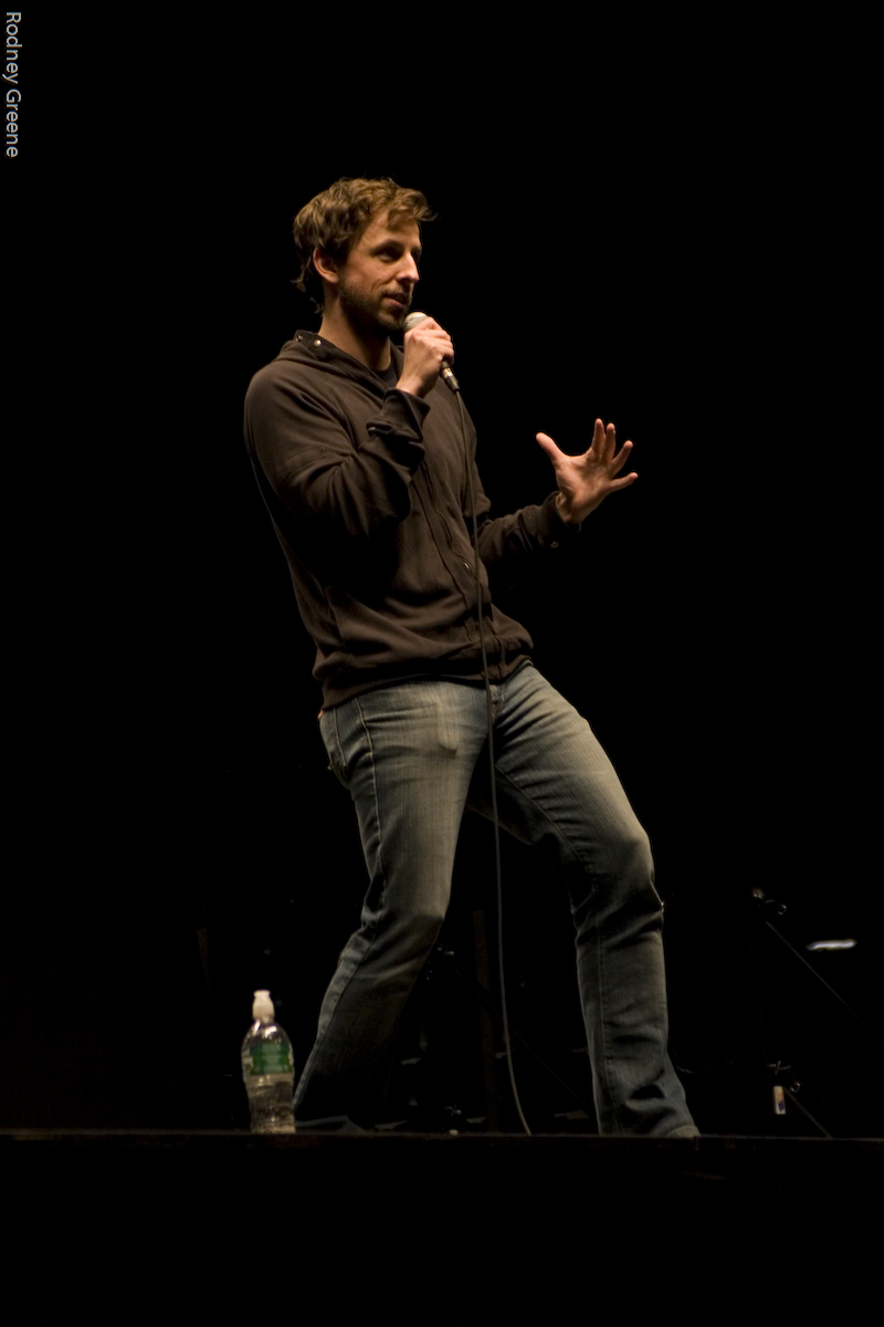 Seth Meyers performs at Clarkson University, Potsdam, NY Photo by: Rodney Greene